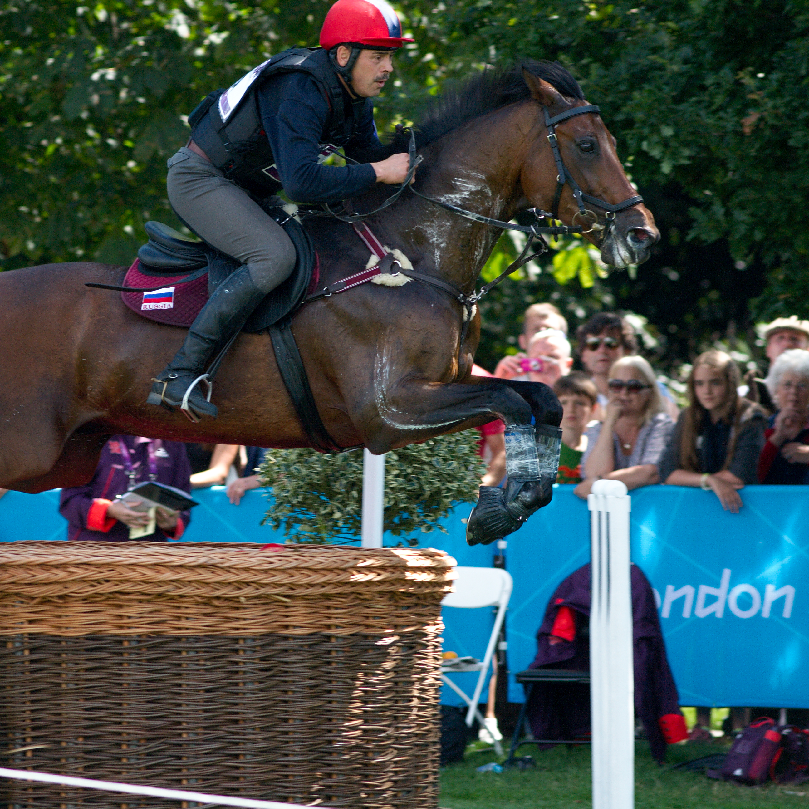 Andrei Korshunov and Fabiy, competing for RUS, at fence 23, during the cross-country phase of the Eventing during the 2012 Olympic Games in Greenwich Park, London.